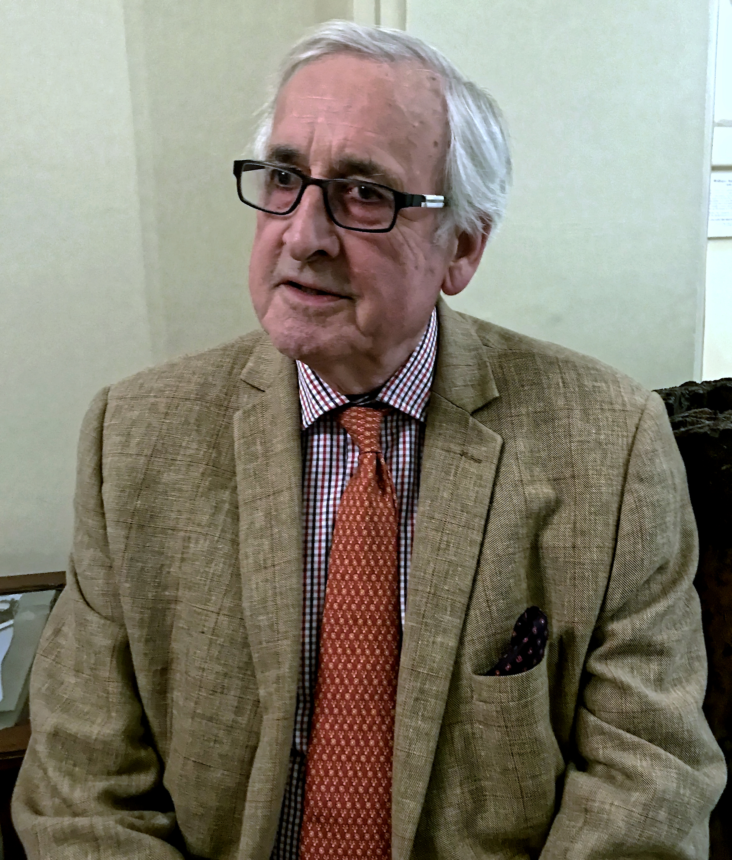 Harvey White at the Medical Society of London.Software: original file optimized, dynamic range increased and orange cast reduced with DxO PhotoLab, and then tweaked with Adobe Photoshop CS2.